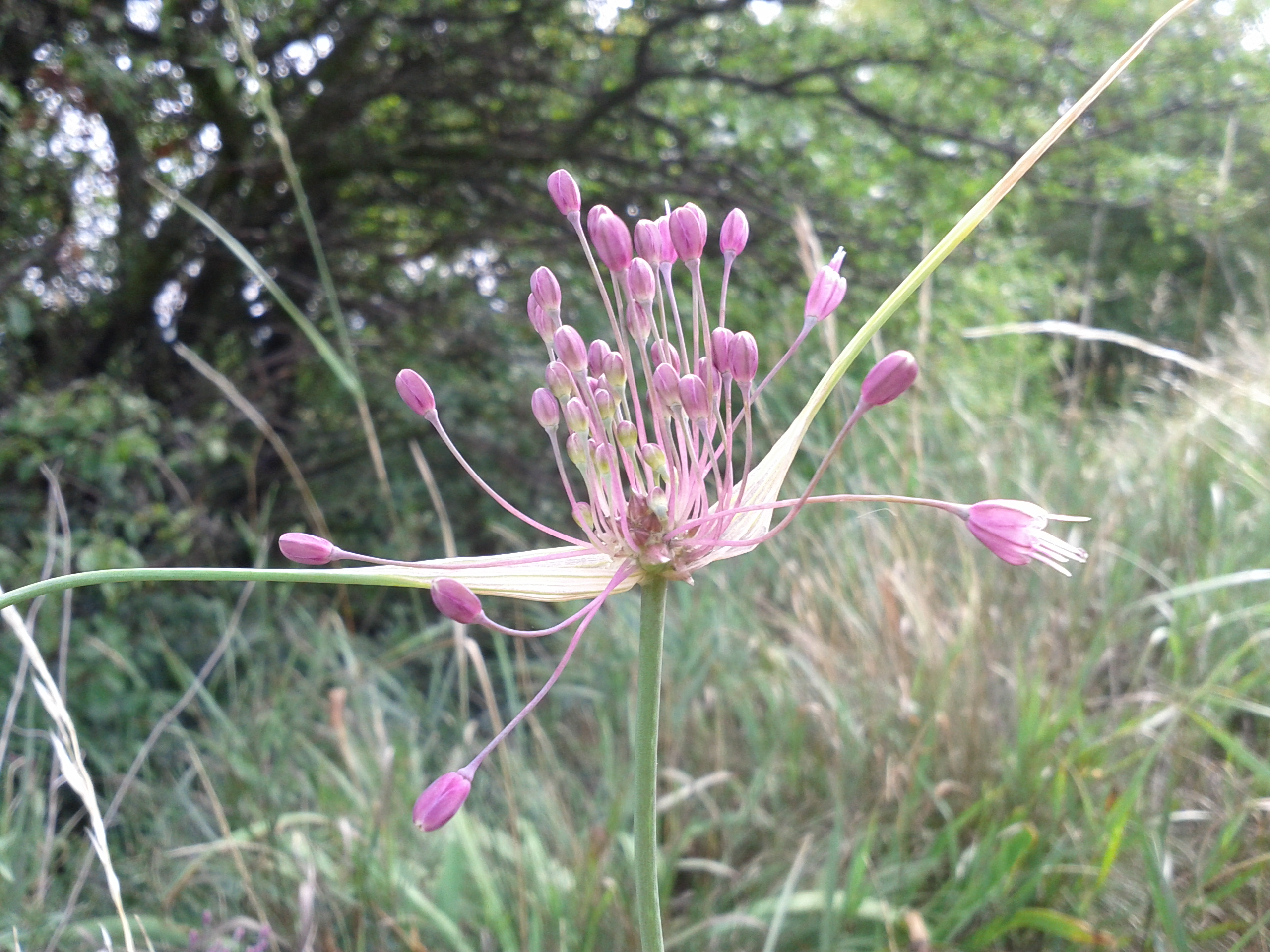 Inflorescence Taxonym: Allium carinatum subsp. carinatum ss Fischer et al. EfÖLS 2008 ISBN 978-3-85474-187-9 Location: Alte Schanzen, object XII, Floridsdorf, Vienna - ca. 225 m a.s.l. Habitat: dry grassland